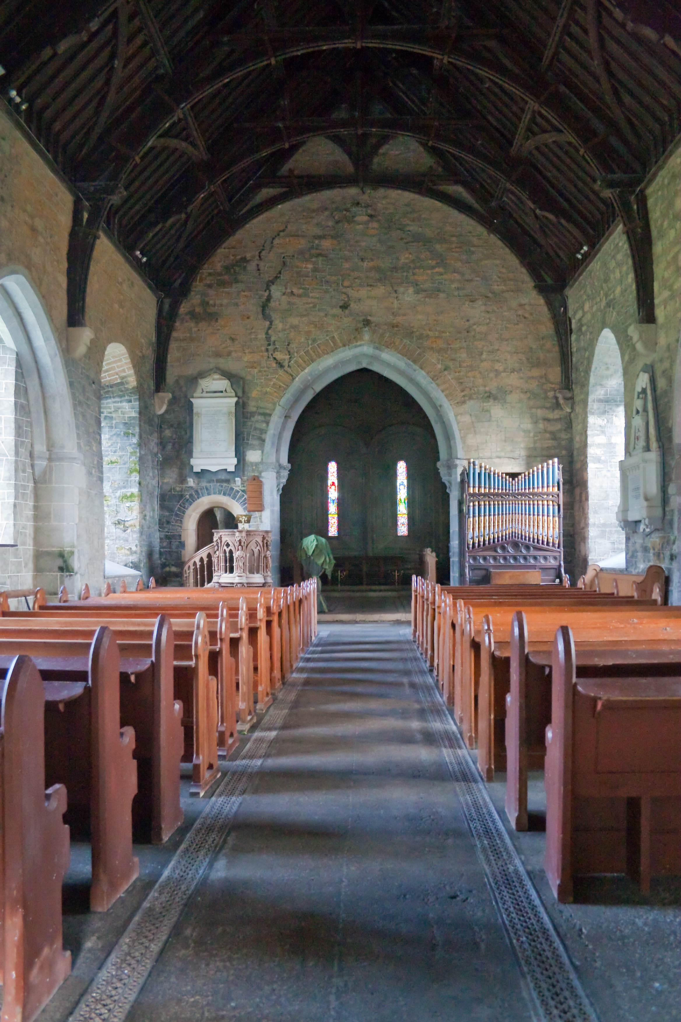 Clonfert Cathedral, Clonfert, County Galway, Ireland Nave of Clonfert Cathedral, looking east.